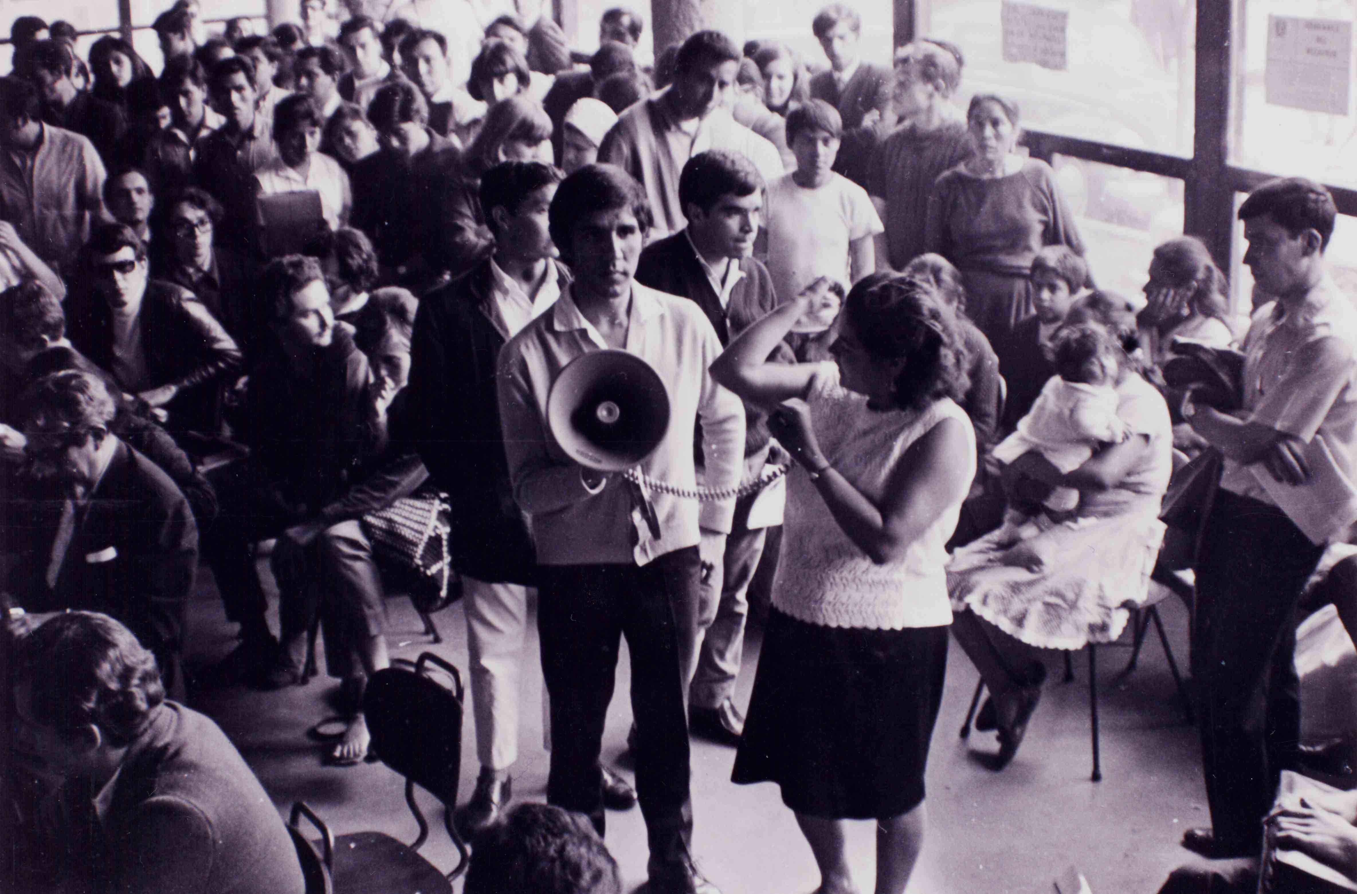 miting at the Philosophy Shool, University campus, Mexico City